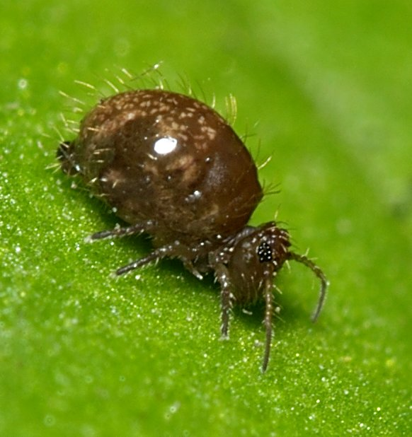 Allacma fusca (Sminthurinae) from Königsforst near Cologne, Germany.